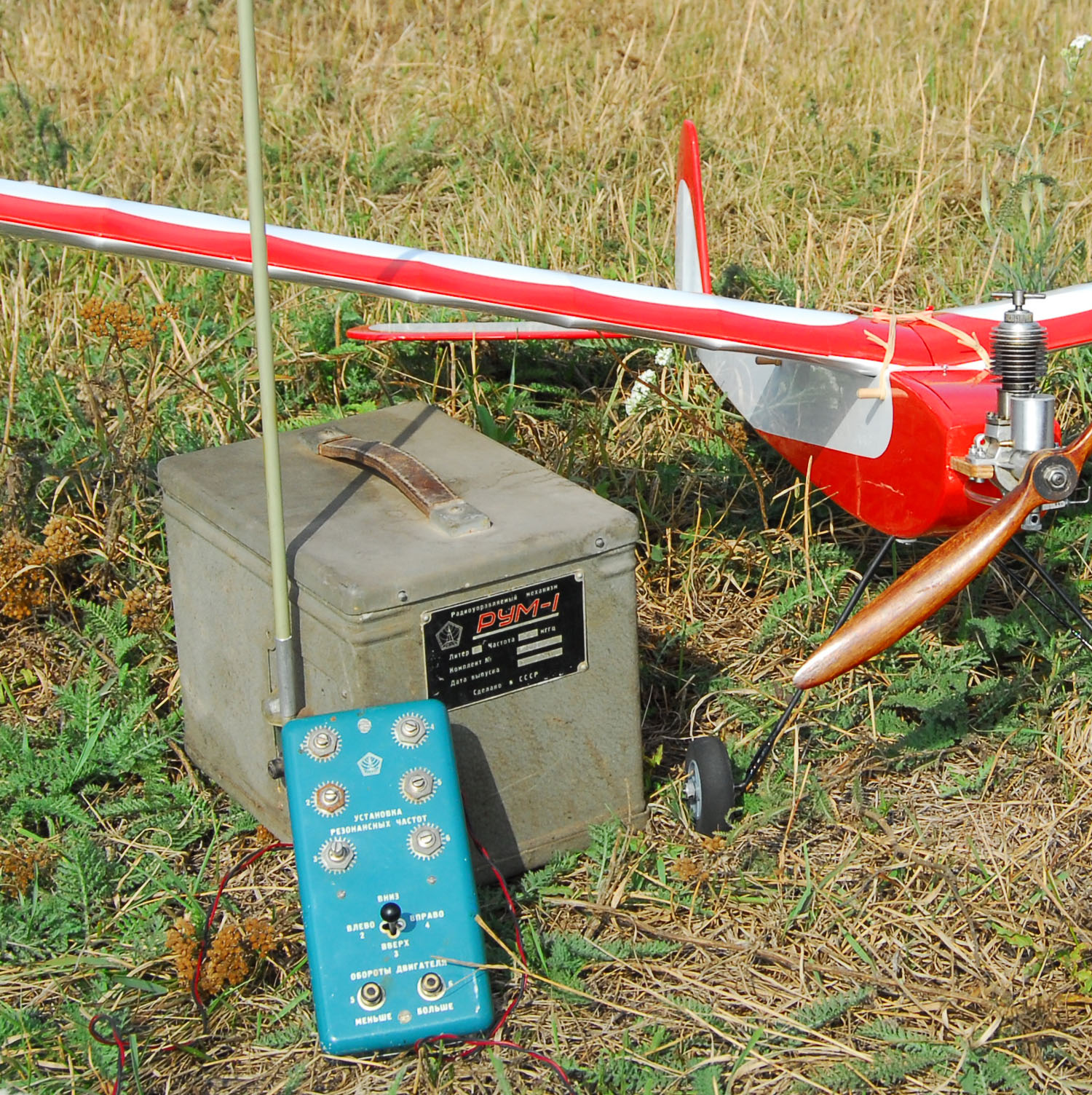 Vintage RC system RUM-1,USSR, 1958